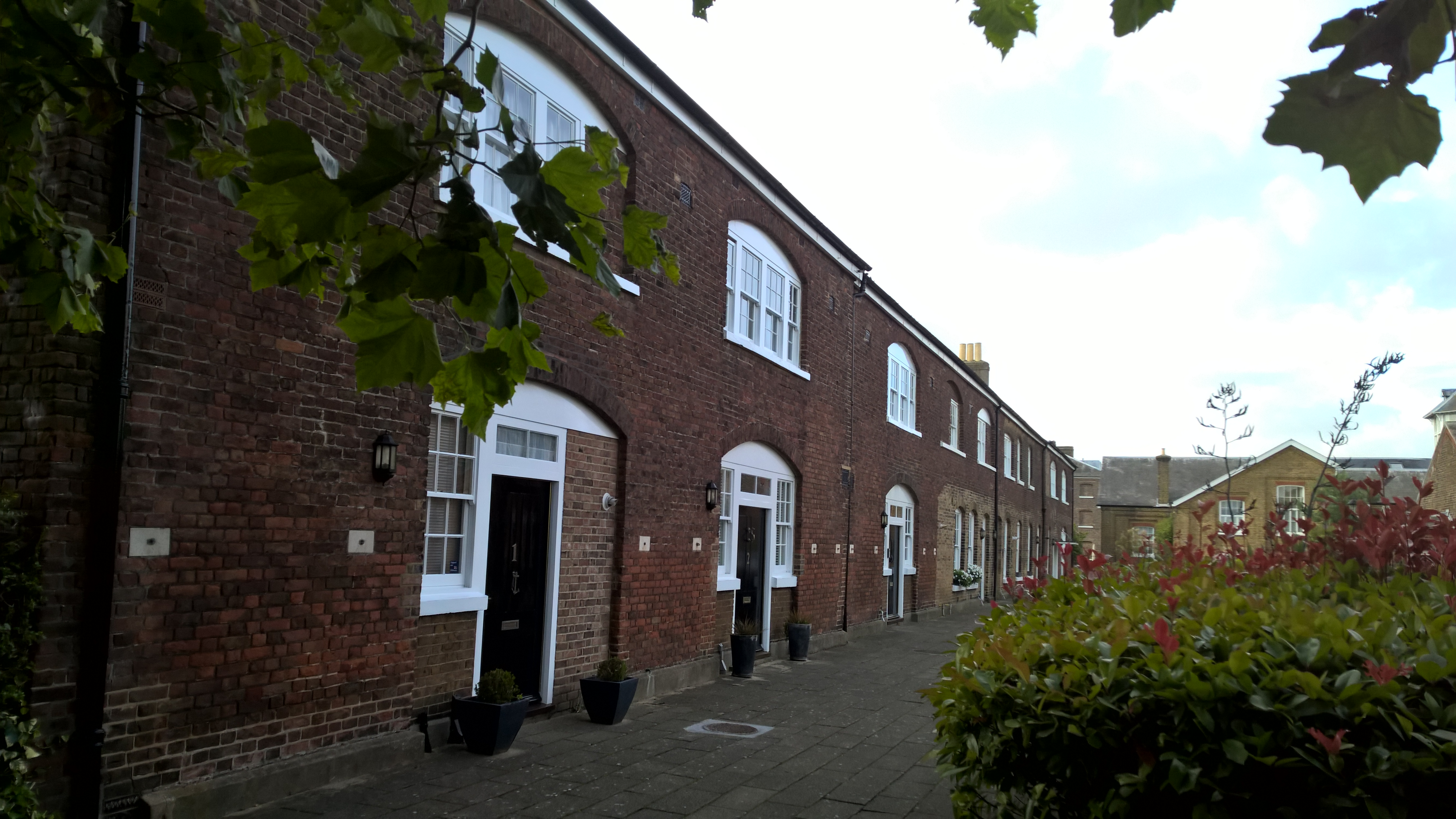 Grade II listed former barrack block, originally with stabling, canteen and offices on the ground floor and accommodation above. 'One of only four such cavalry barracks surviving from the first army barrack-building campaign in England, and part of a group with the former infantry barracks and Officers' quarters'.